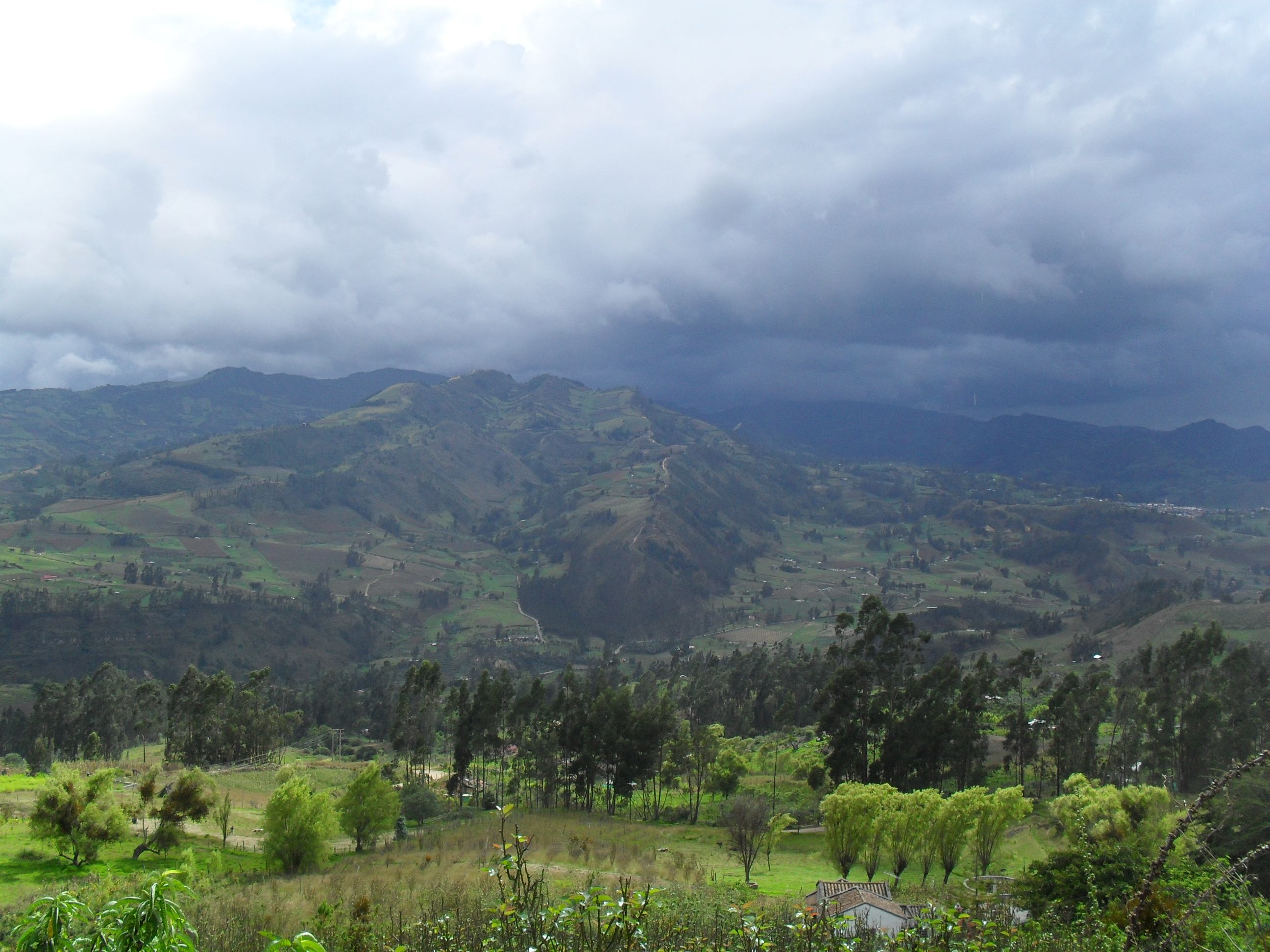 Panorámica de área rural de municipio de Turmequé, Boyacá, Colombia; a la derecha el sector urbano